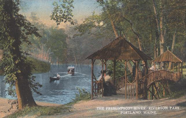 Riverton Park, Portland, ME; from a c. 1910 postcard.